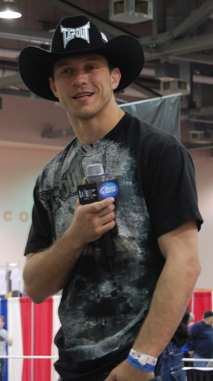 an American mixed martial artist and kickboxer, Donald "Cowboy" Cerrone